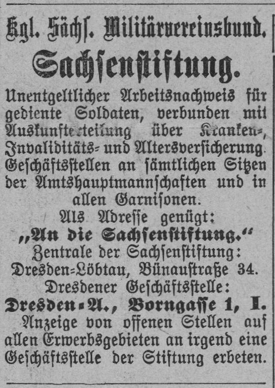 Scan from the Dresdner Journal, 1906